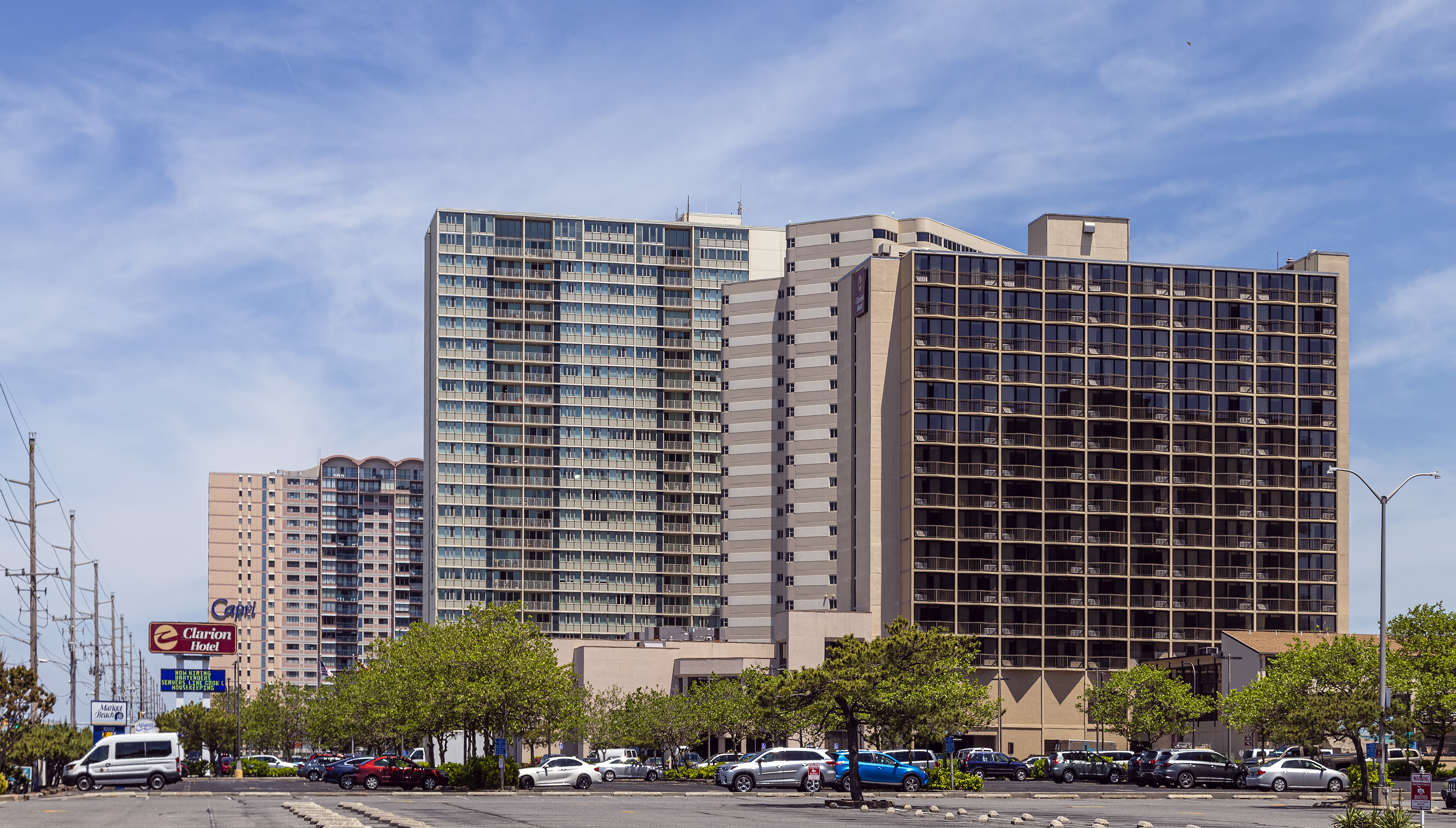 Hotel and condos, Ocean City, Maryland, USA, looking north